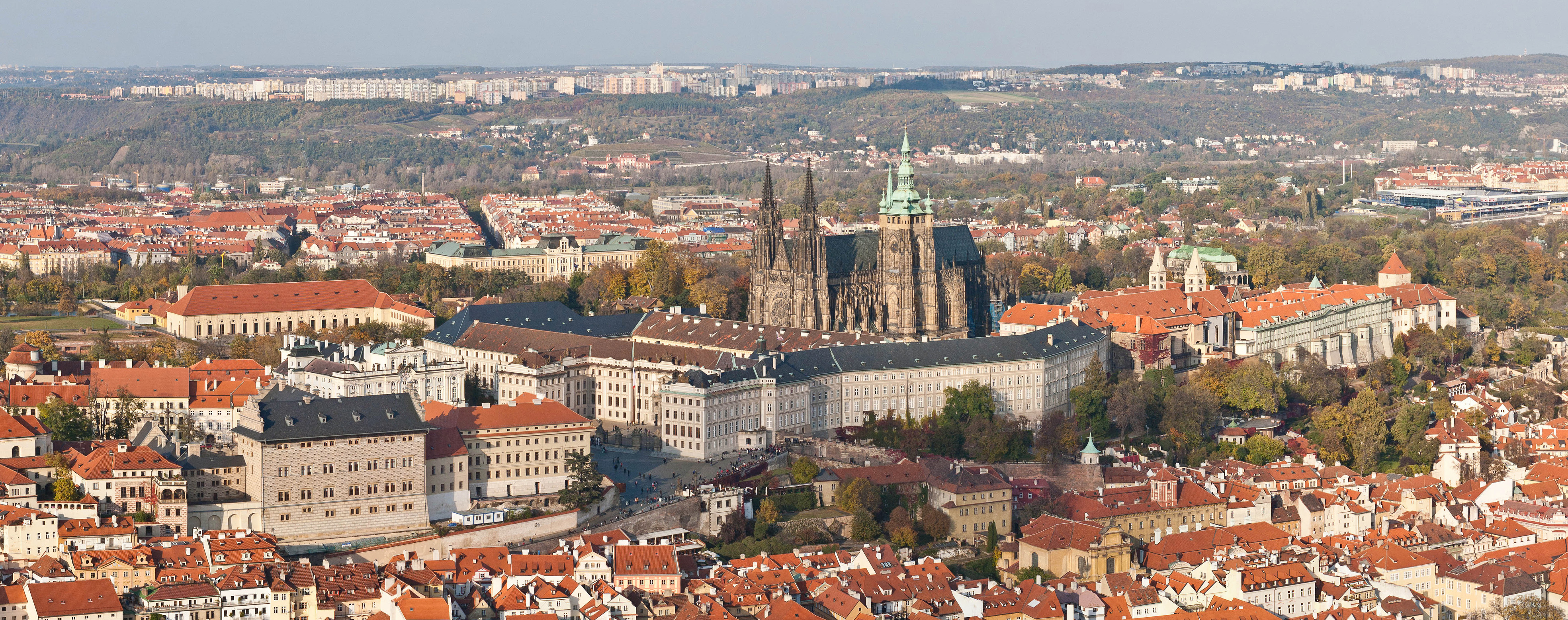 A panoramic view of Prague as viewed from Petřín Lookout Tower. The view is approximately 180 degrees, from north on the left to south on the right.